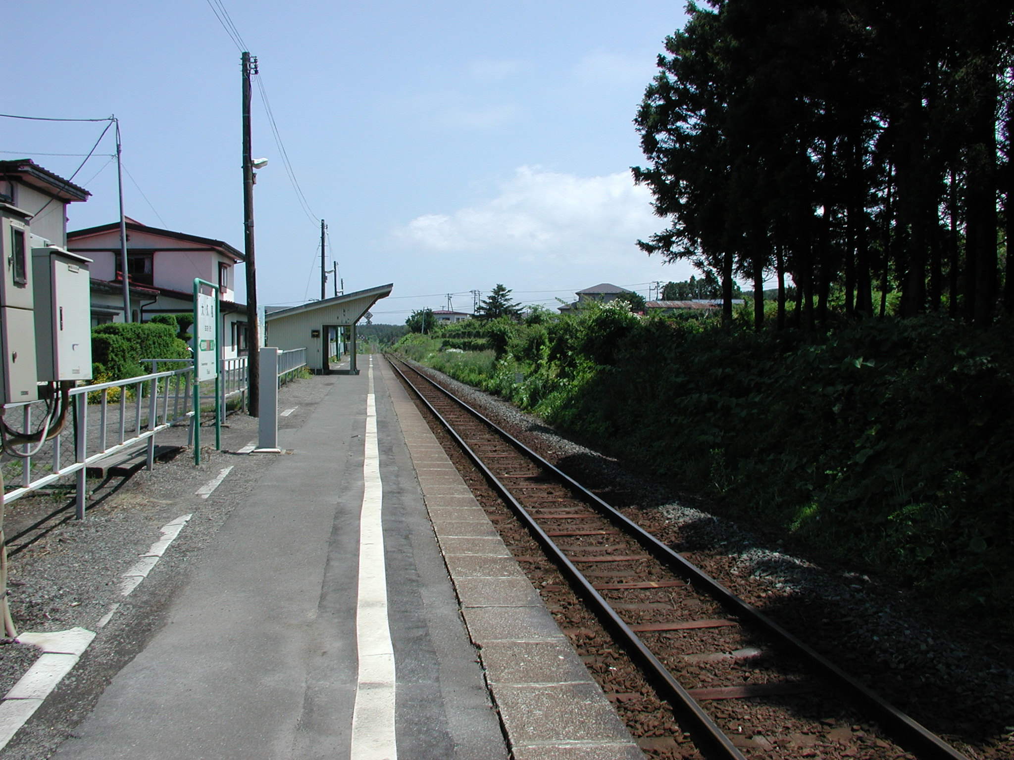 ŌKuki Station in Home